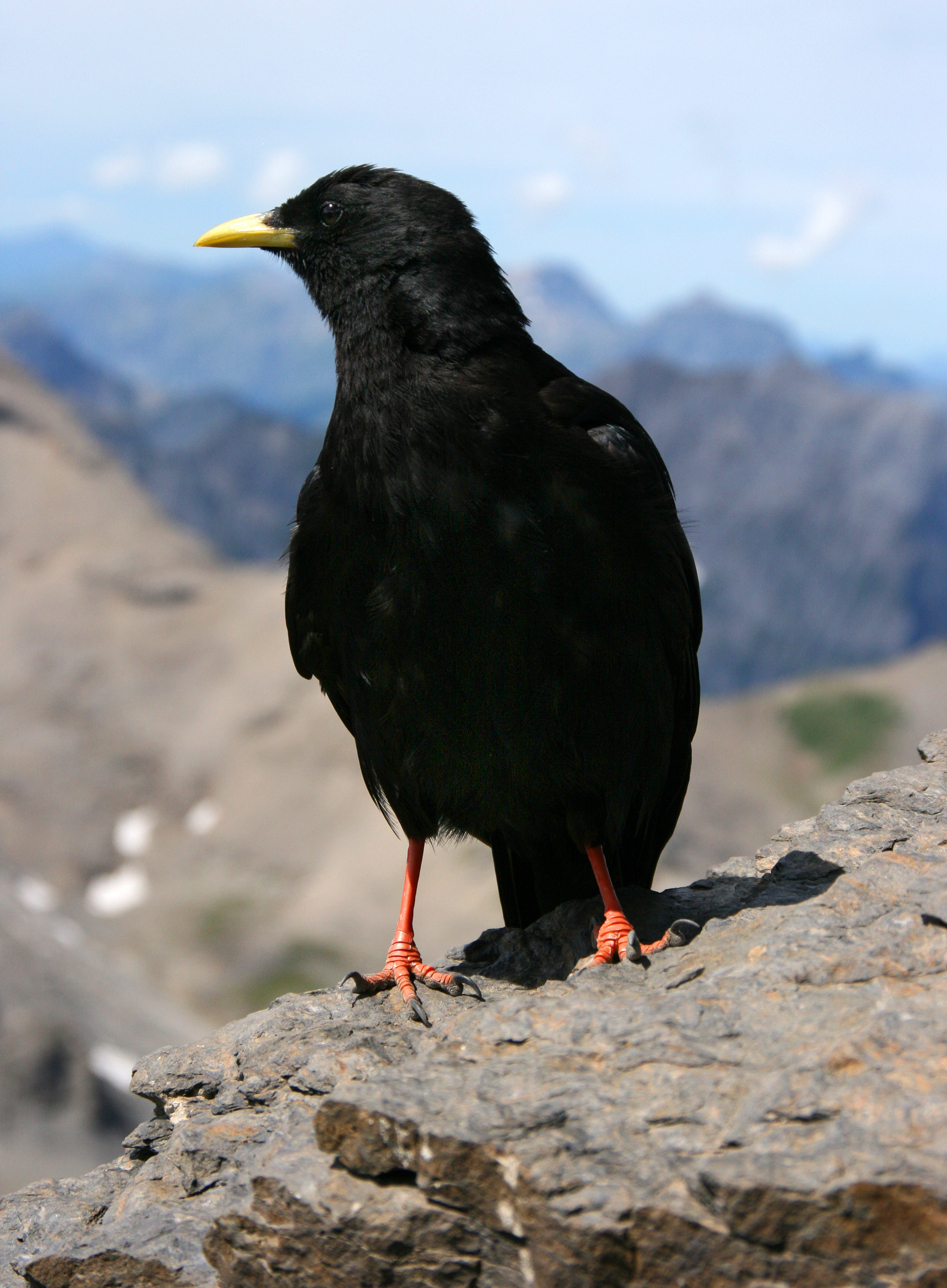 An Alpine Chough on Schilthorn, Bernese Alps, Switzerland.